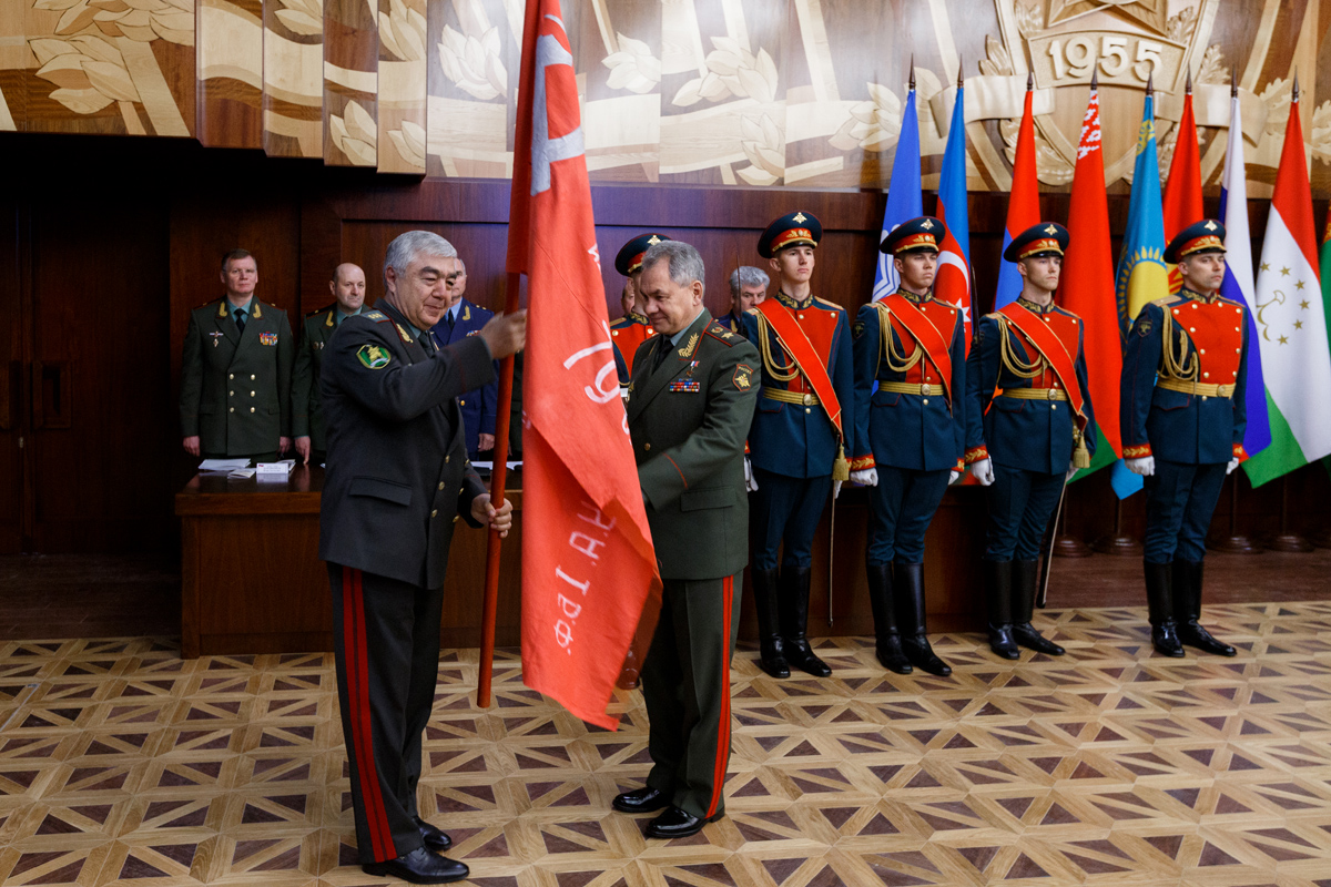 Uzbek Defense Minister Qobul Berdiyev being handed the Victory Banner by Russian Defense Minister Sergei Shoigu.